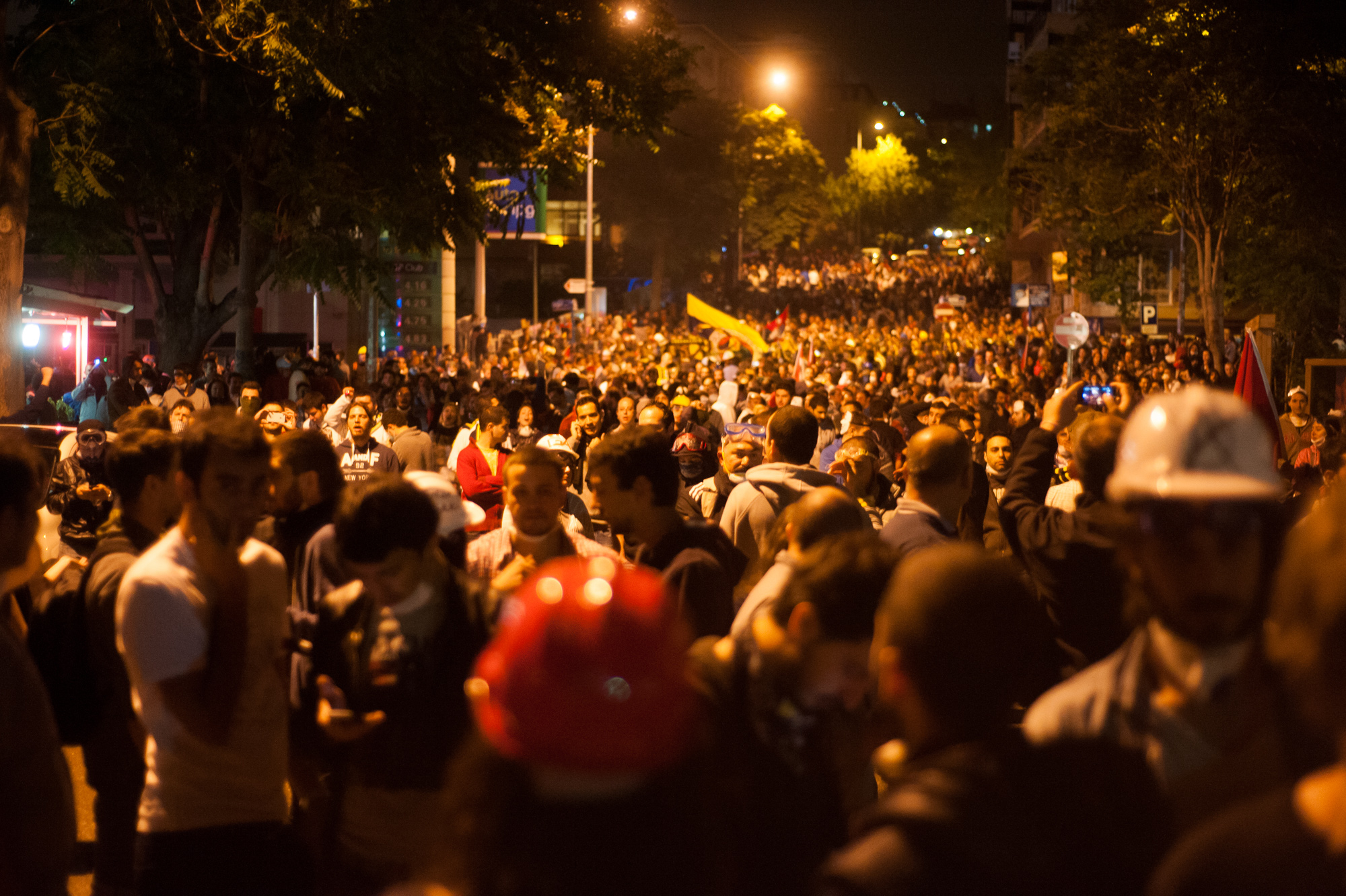 Nighttime mass protests in Ankara. Events of June 7-8, 2013.